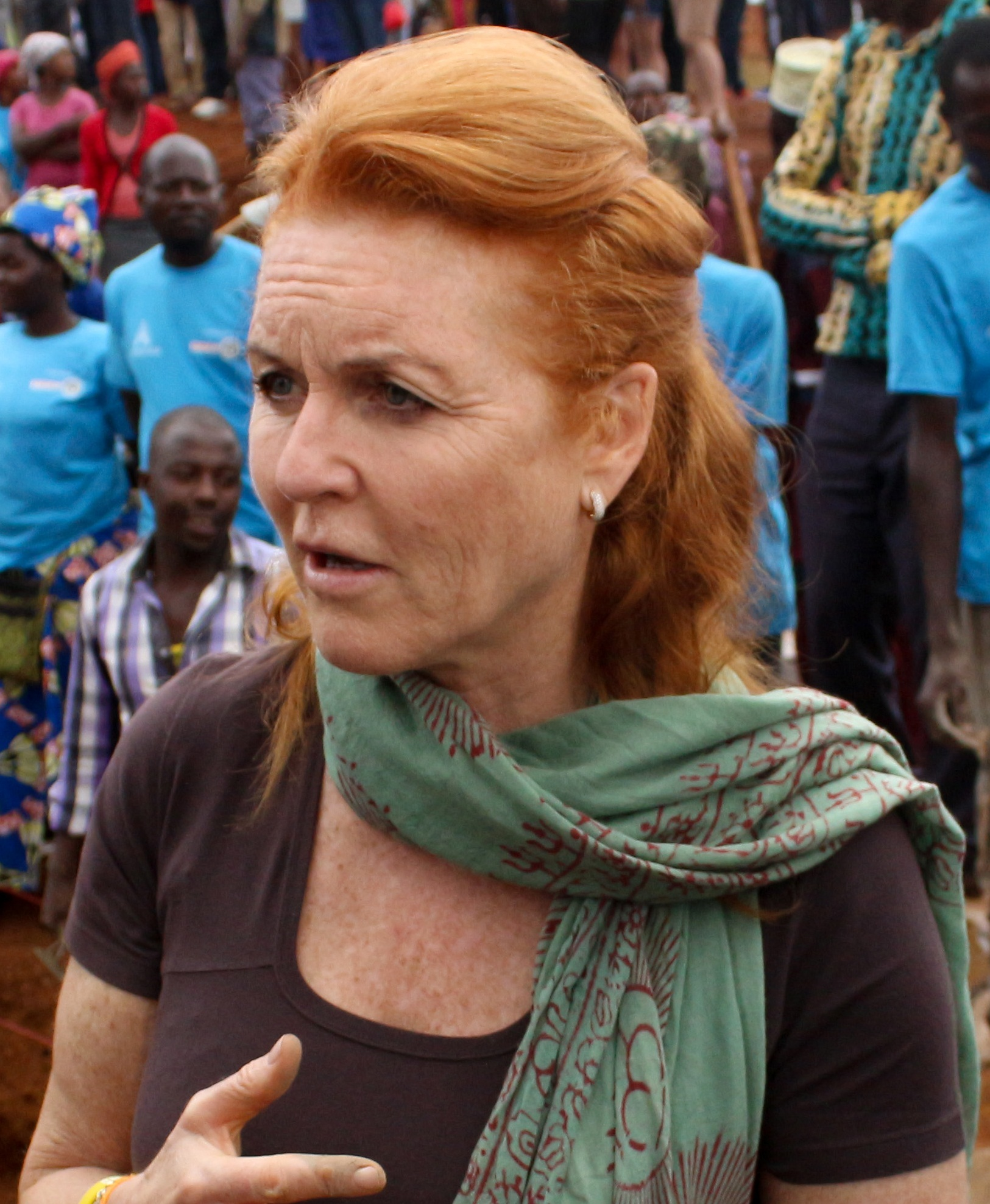 Sarah Ferguson in Rwanda during the launch of Gahanga Cricket Stadium